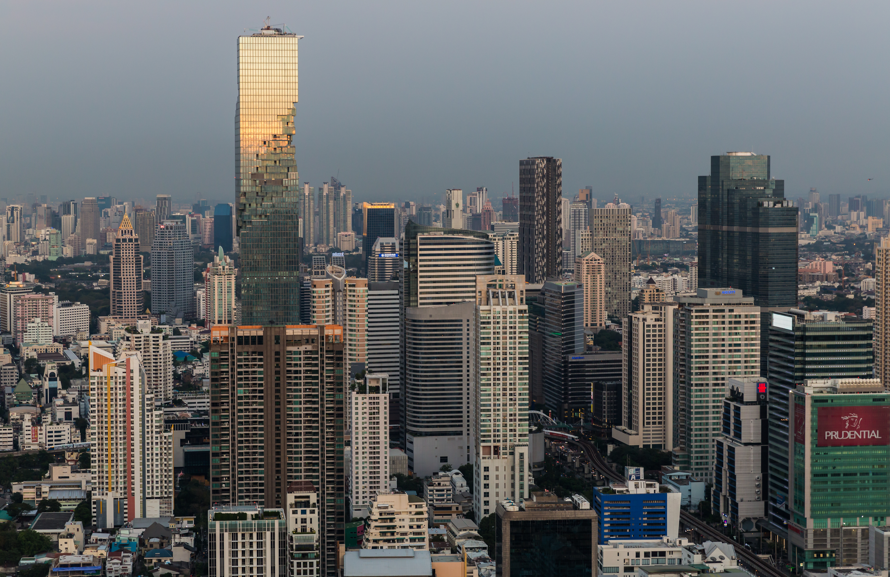 Bangkok, Thailand View from the State Tower